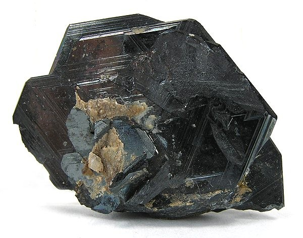 Hematite, Rutile Locality: Cavradi gorge, Curnera Valley, Tujetsch (Tavetsch), Vorderrhein Valley, Grischun (Grisons; Graubünden), Switzerland (Locality at ) A fine Swiss hematite cluster, with the traditional stacked, flattened crystal form, and high luster which does not show up in the pics. These crystals are complete all around, with the normal contact at the bottom where the specimen was removed from the matrix. Ex. Hauck Collection. 4.3 x 2.9 x 1.1cm